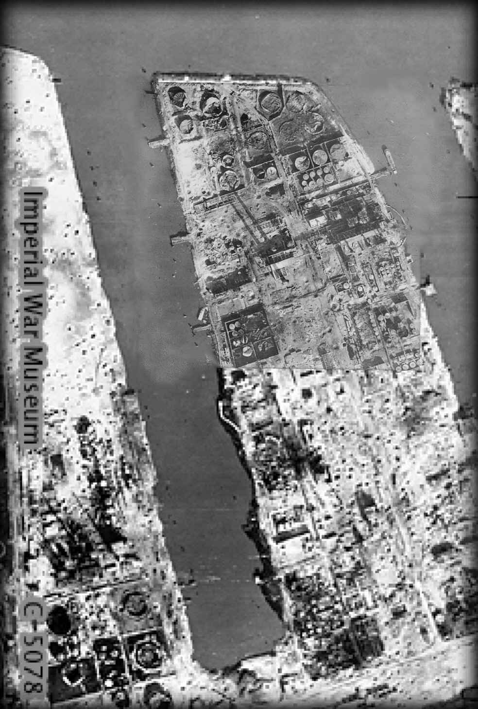 destroyed mineral oil plants at Harburg harbor